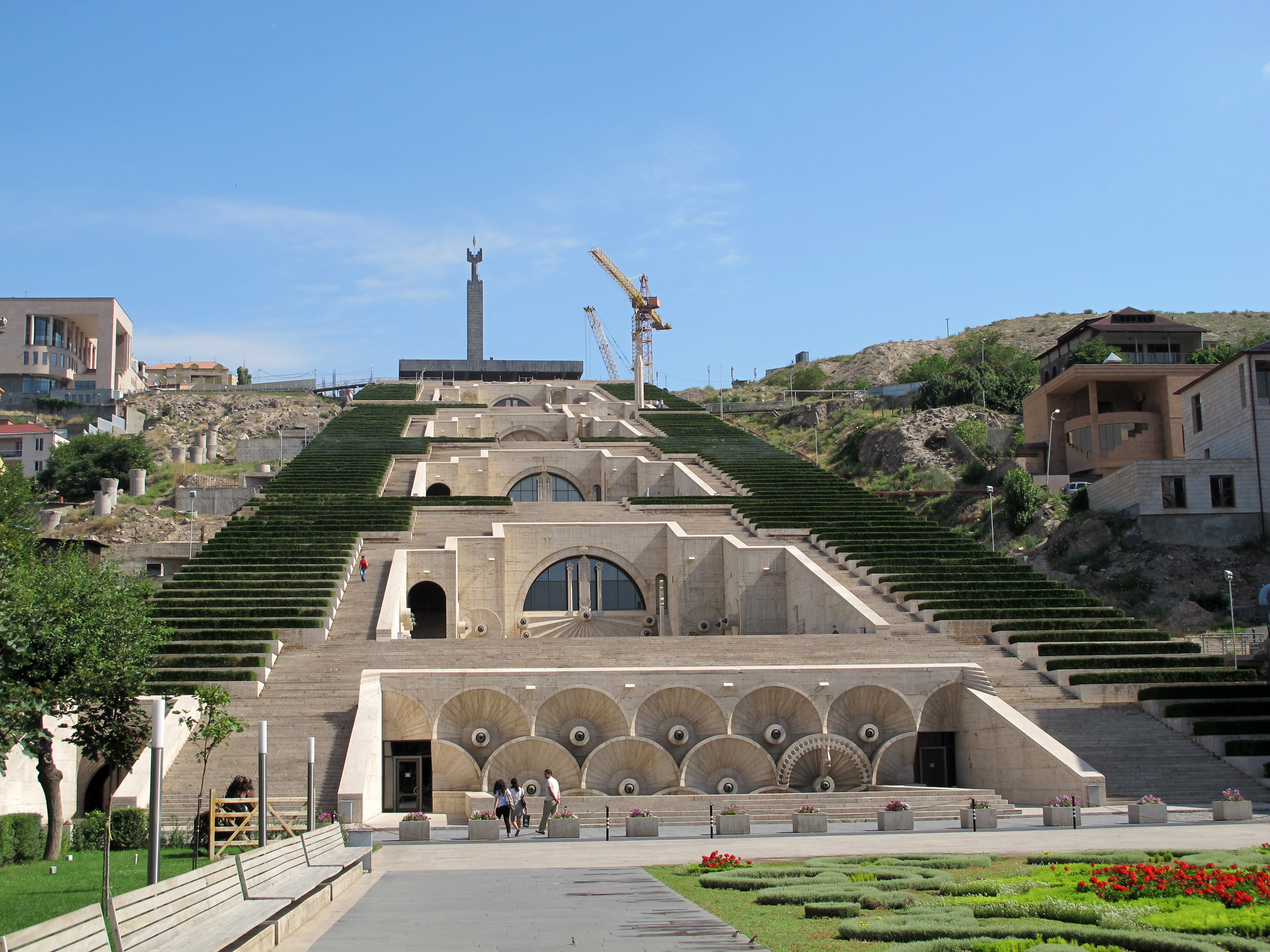 The Cascade of Yerevan 3/10